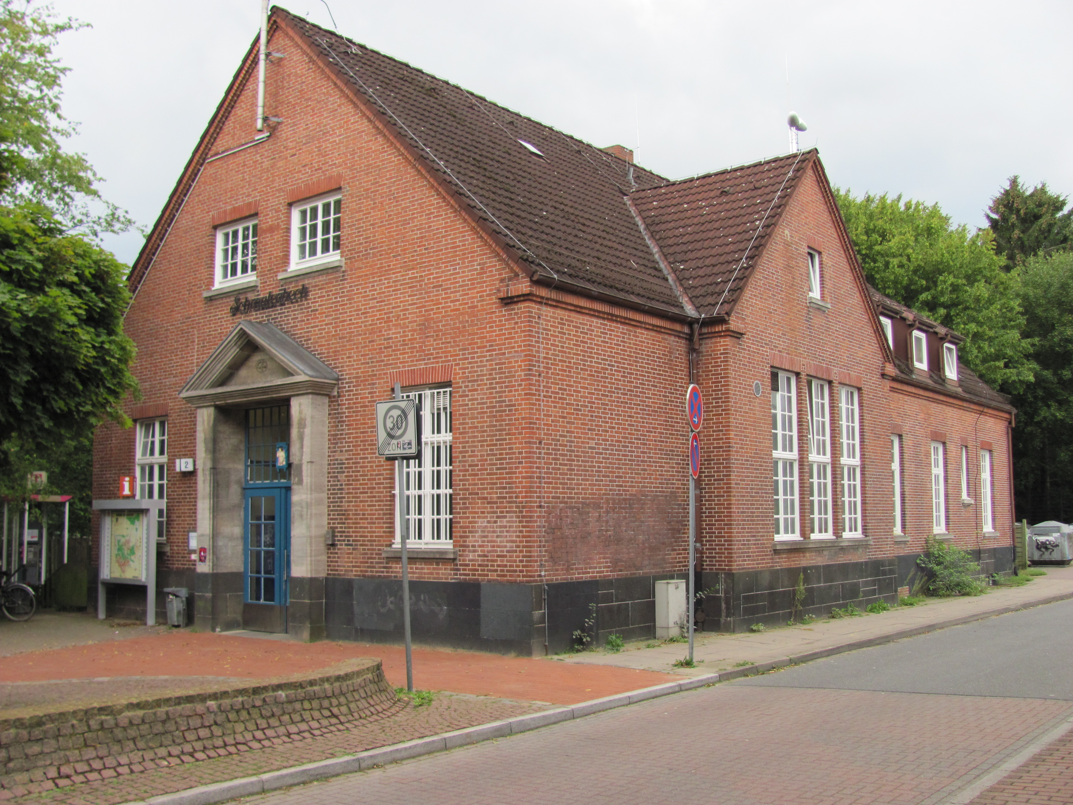 U-Bahn station Schmalenbeck in Großhansdorf, Germany